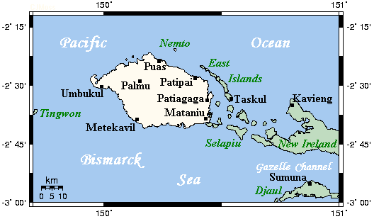 A map showing main towns and nearby islands of New Hanover (Lavongai), Bismarck Archipelago, Papau New Guinea